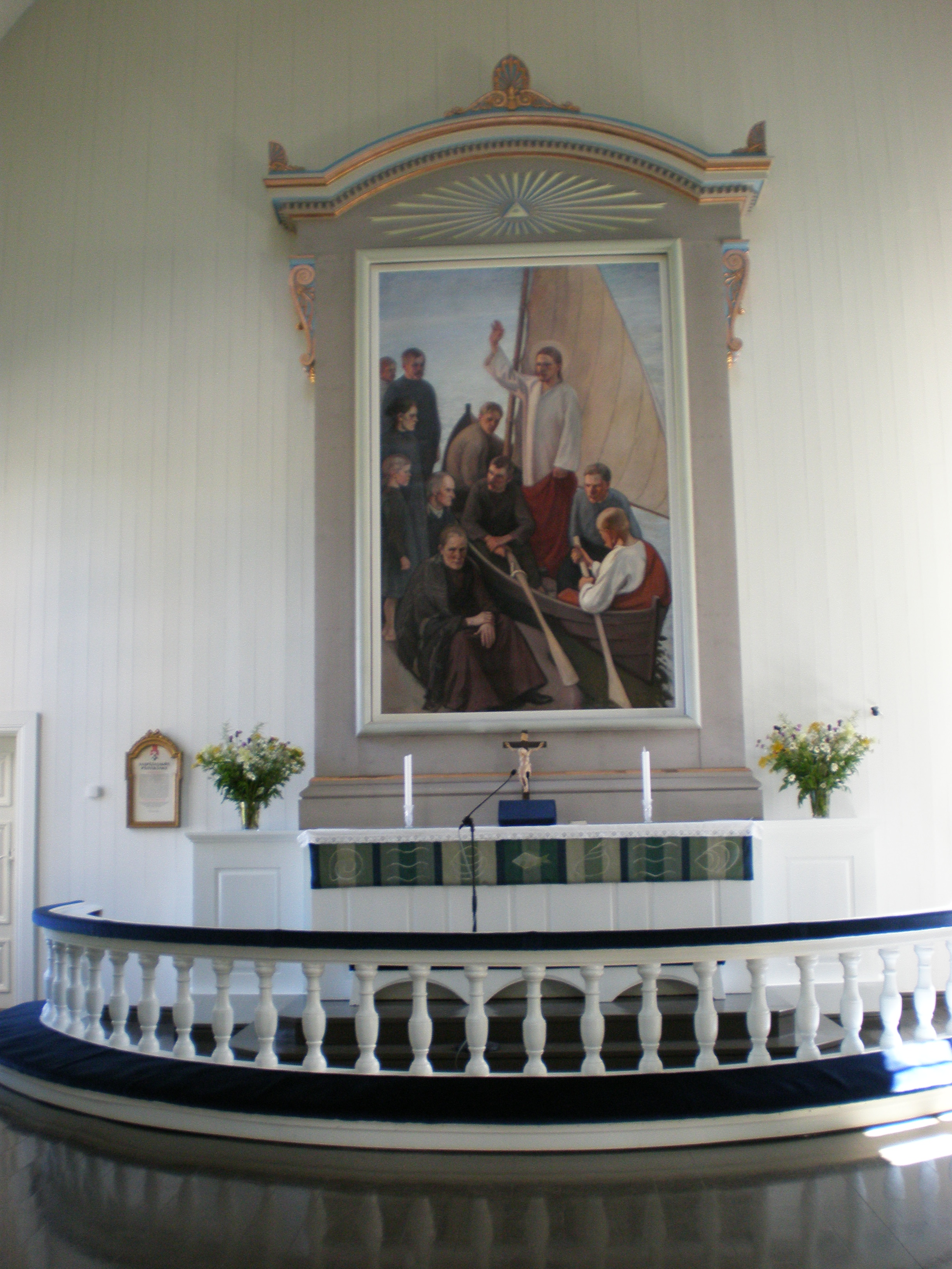 Altar of Karstula Church in Karstula, Finland